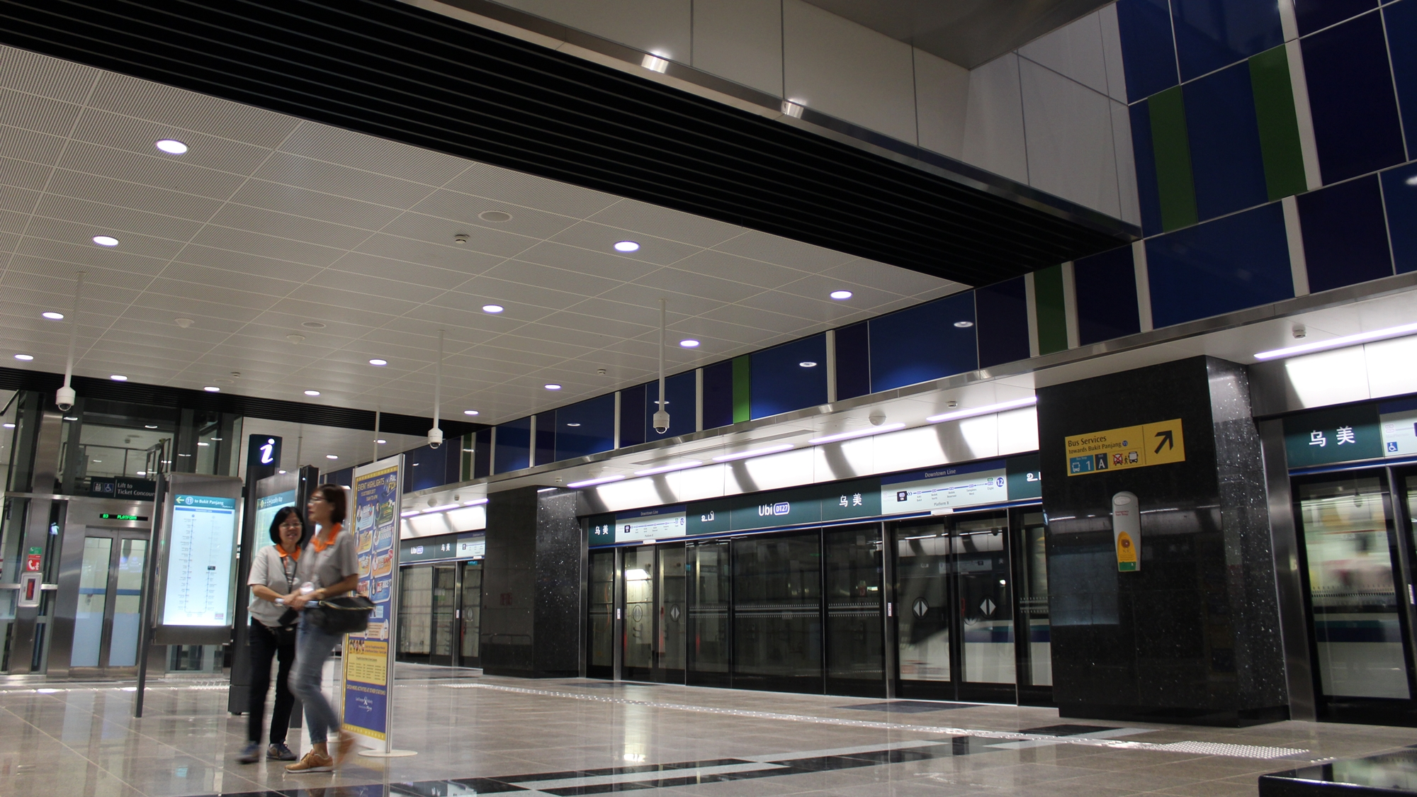 DT27 Ubi station